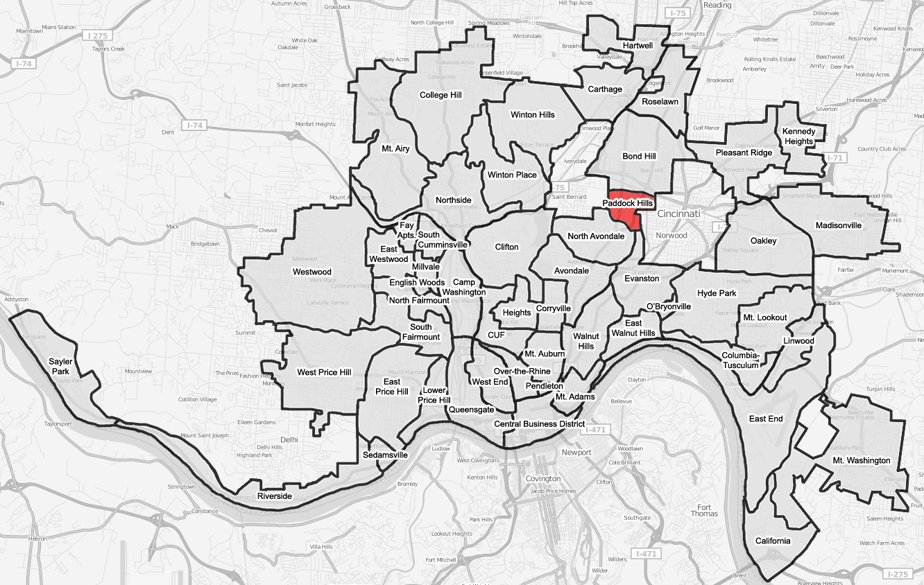 A map of the neighborhood of Paddock Hills within Cincinnati, Ohio. Neighborhood lines are based on information from This street map is derived from a free map.